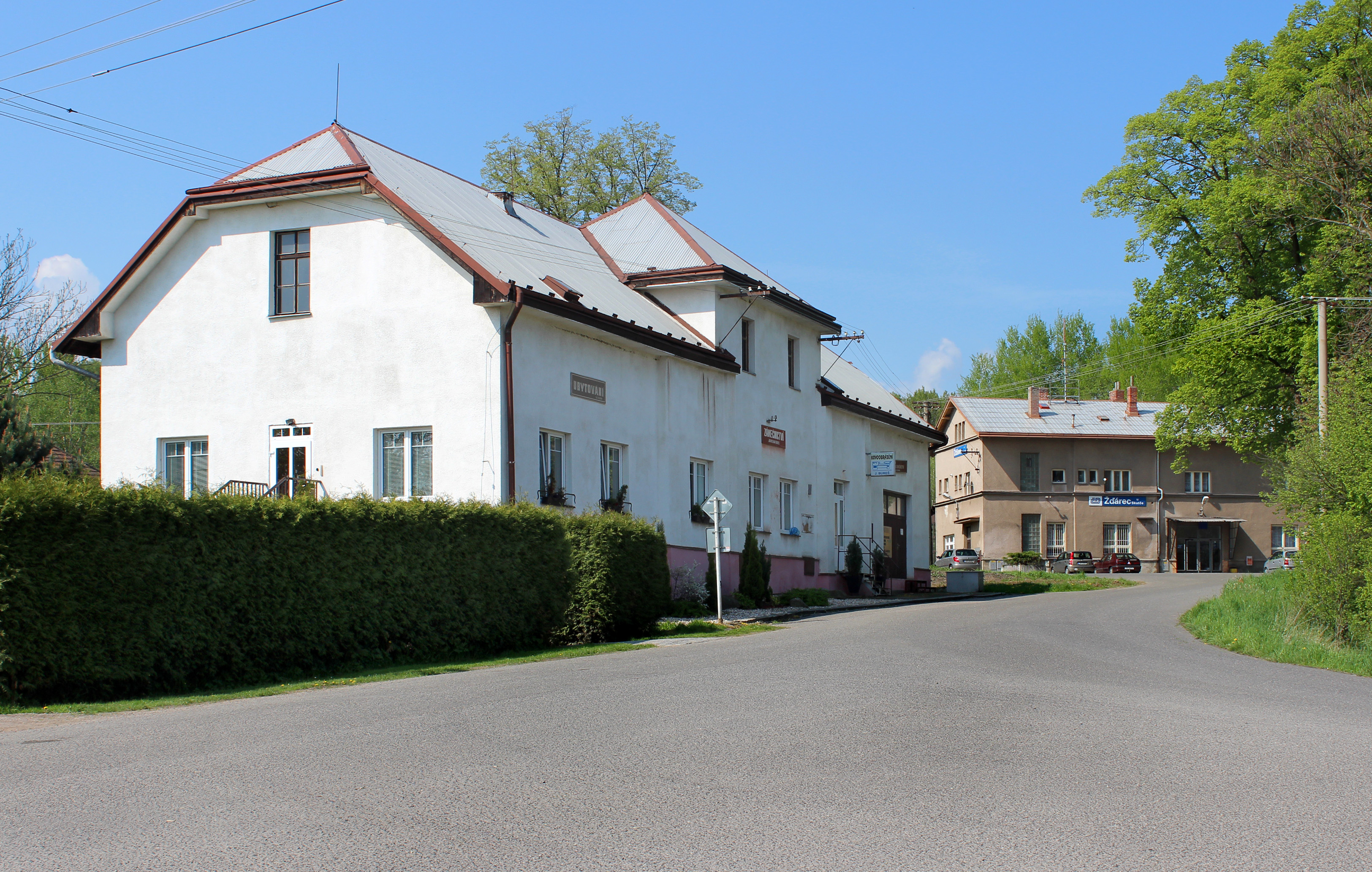 Train station in Žďárec u Skutče, part of Skuteč town, Czech Republic